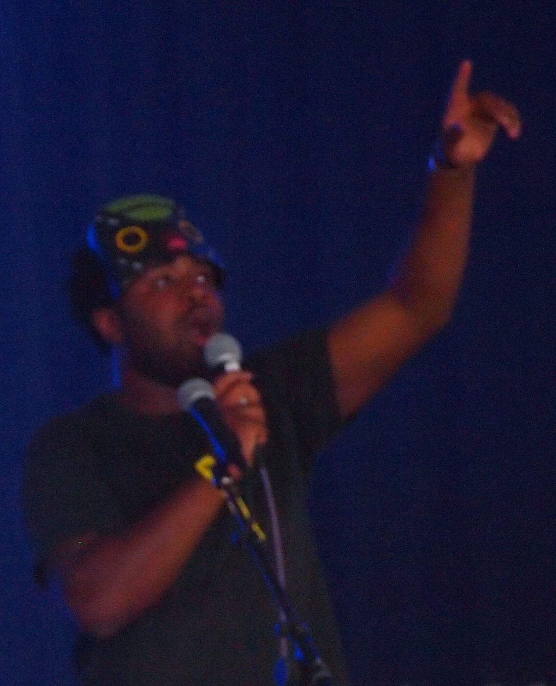 Sampha performing live with SBTRKT on 9 June 2012.